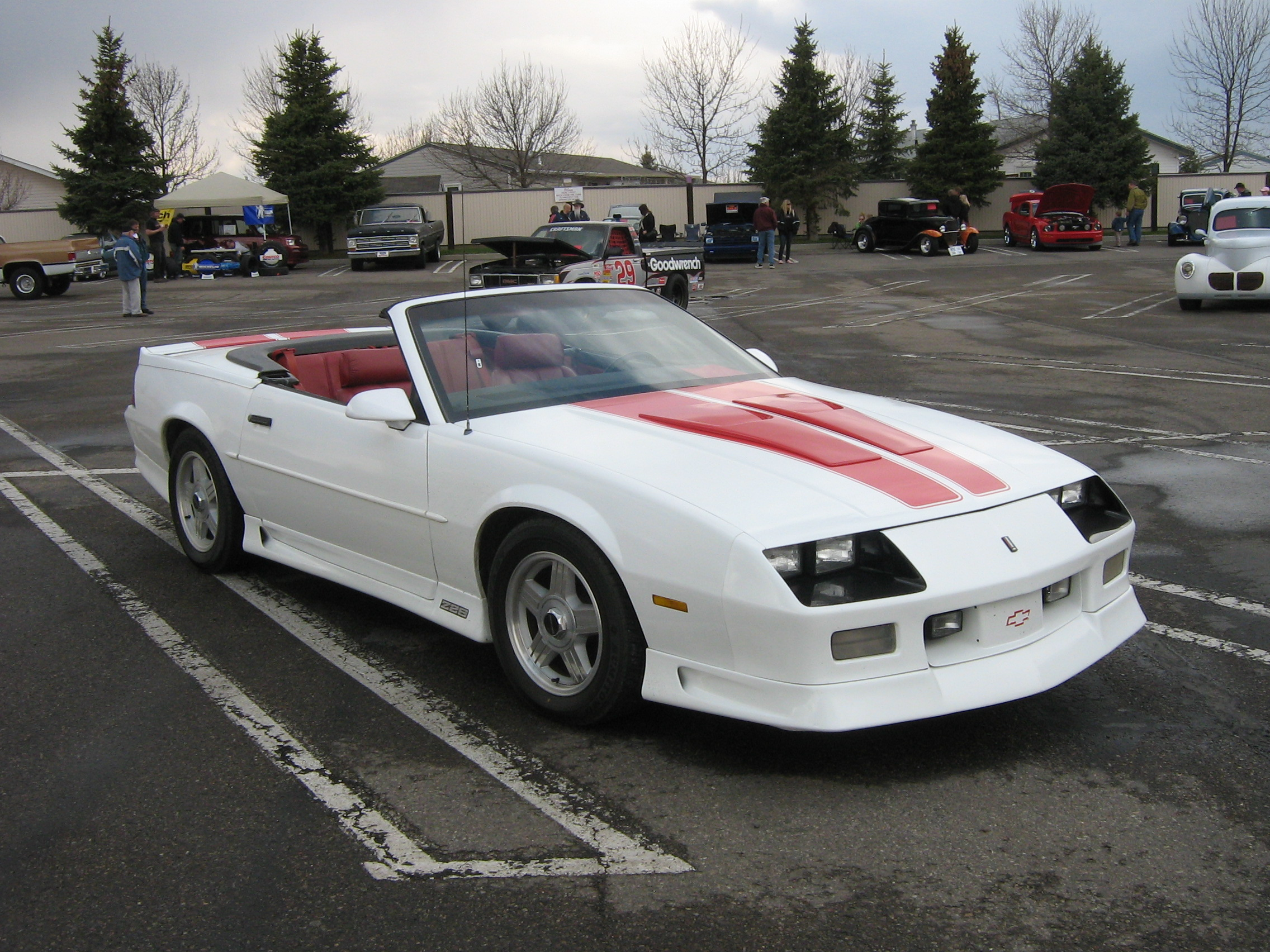 Chevrolet Camaro Convertible